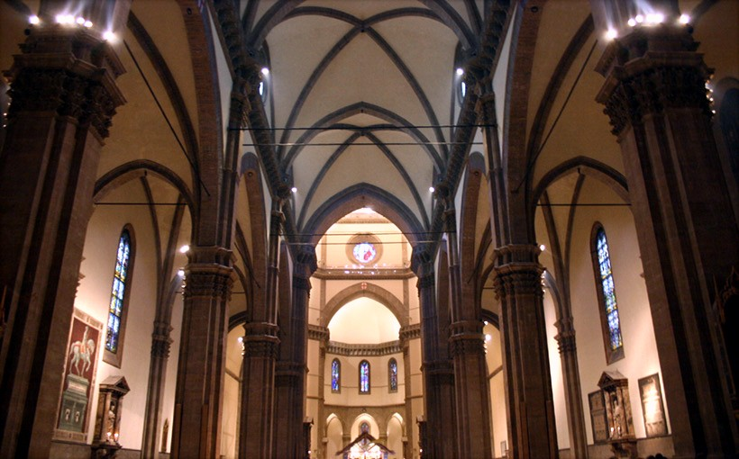 Florence, the Cathedral of Santa Maria del Fiore, architect- Arnolfo di Cambio 1300s, dome- Brunellleschi 1400s.